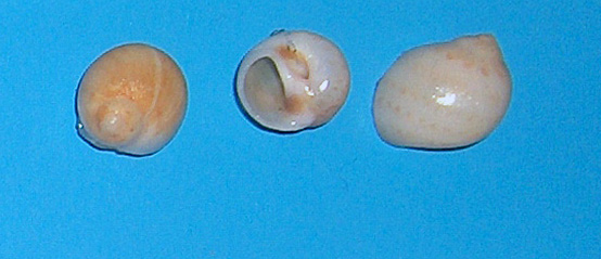 Euspira nitida (Donovan, 1804) , a moon snail from the family Naticidae